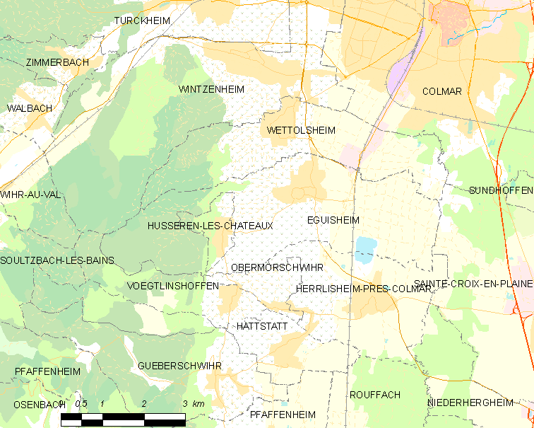 Map of French municipality